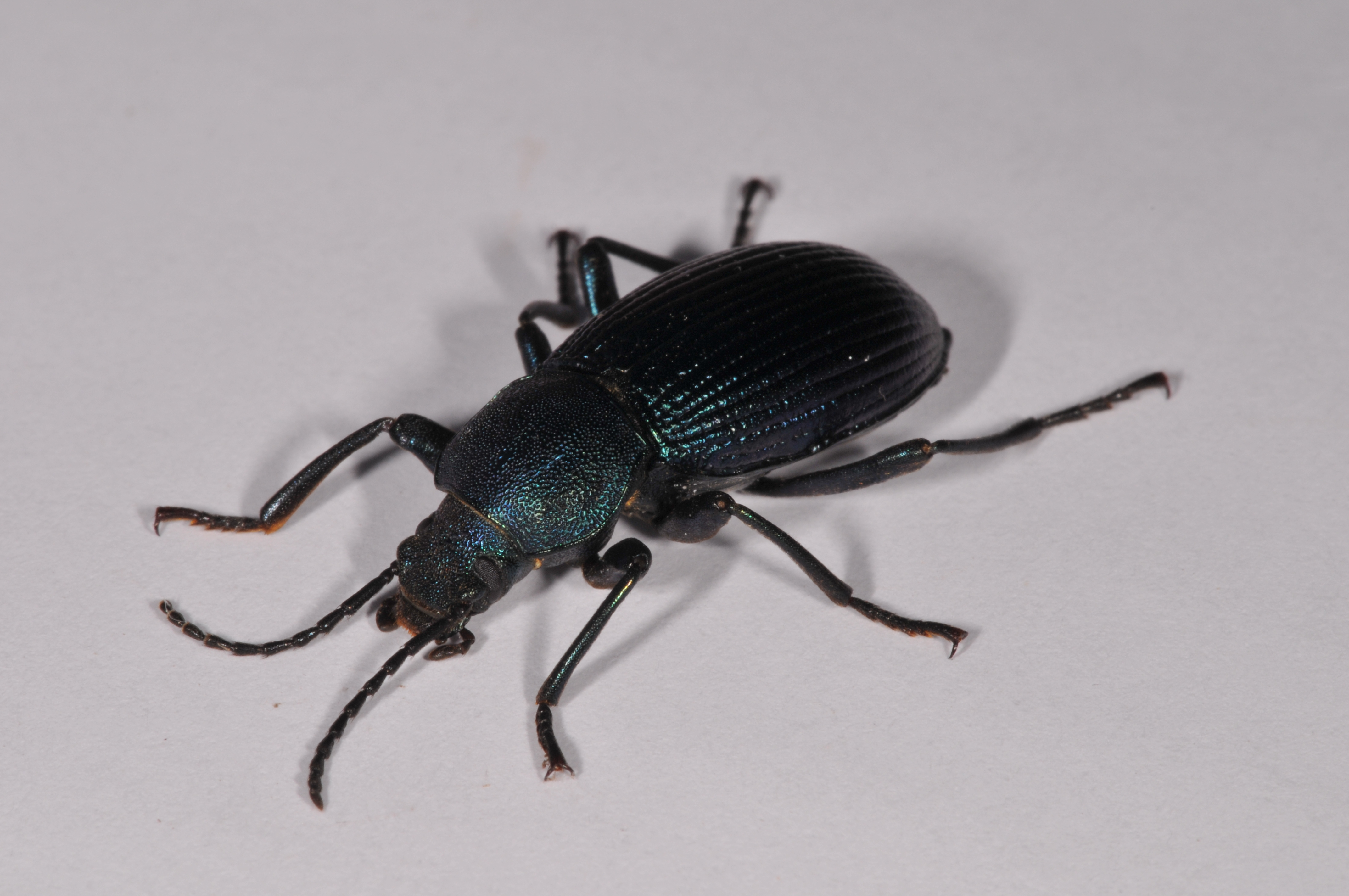 Helops_rossii, Croatia, Istria, Brseč 15 km south Lovran, 45°10`23,80``N 14°13`37,25``E